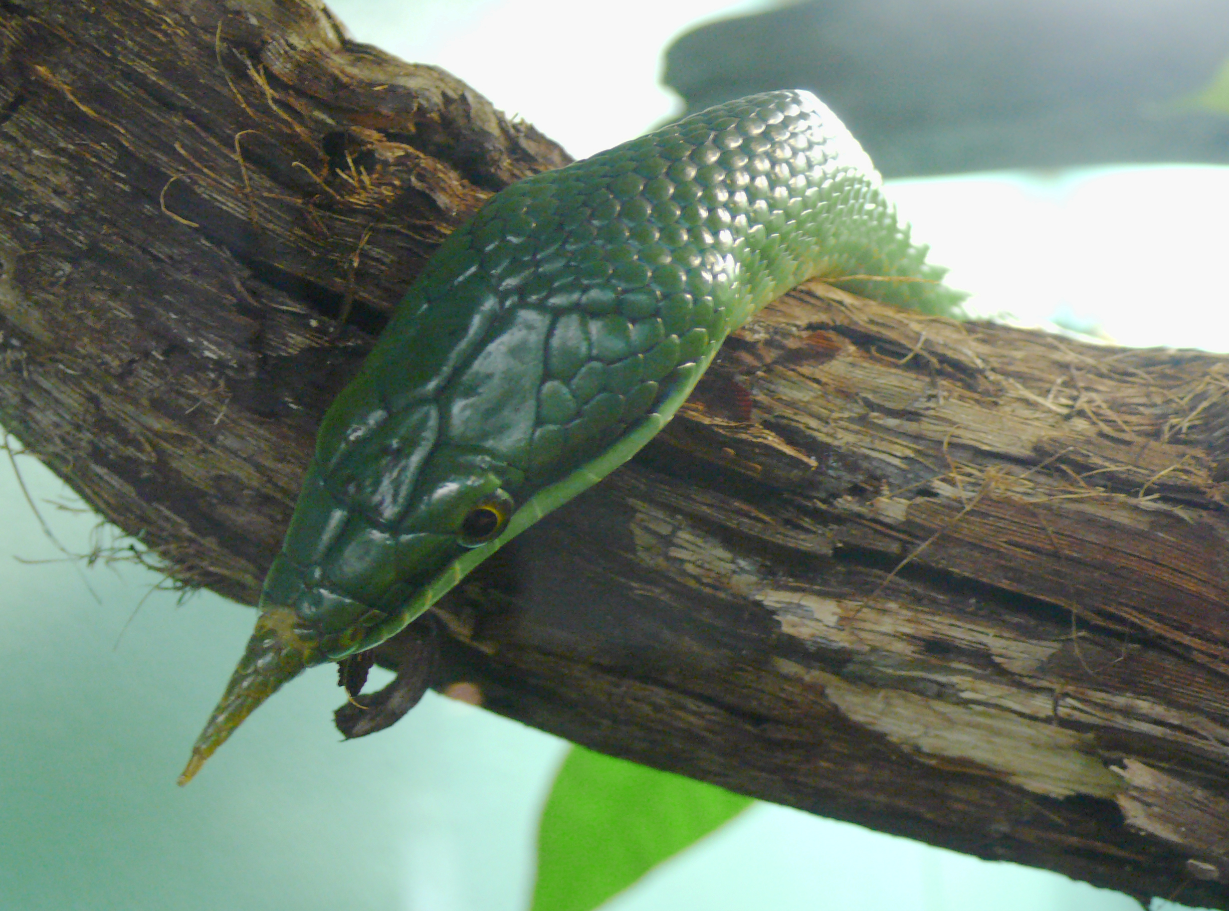 Vietnamese Long-Nosed Snake (Rhynchophis boulengeri)